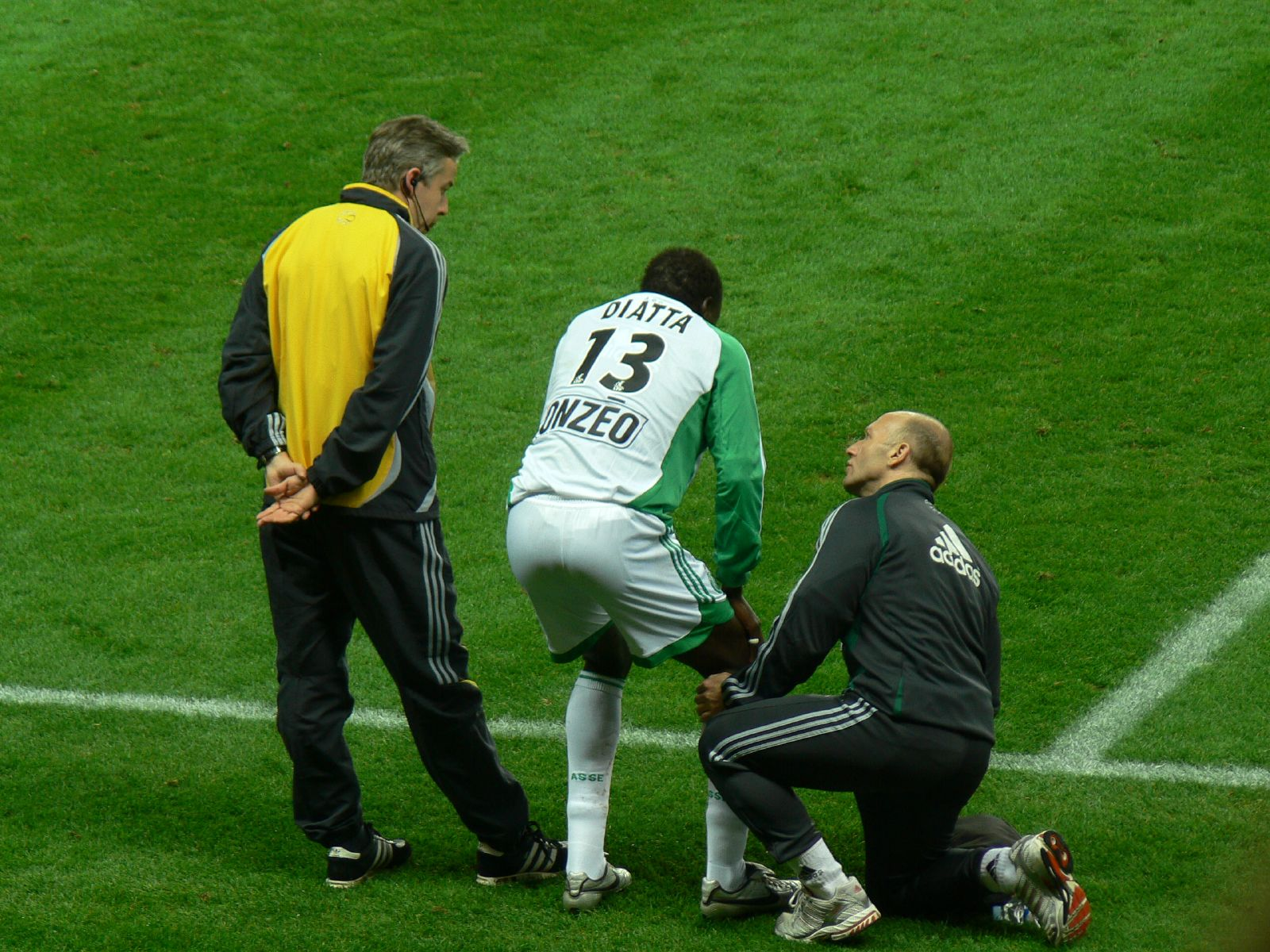 Photo of AS Saint-Etienne player Lamine Diatta